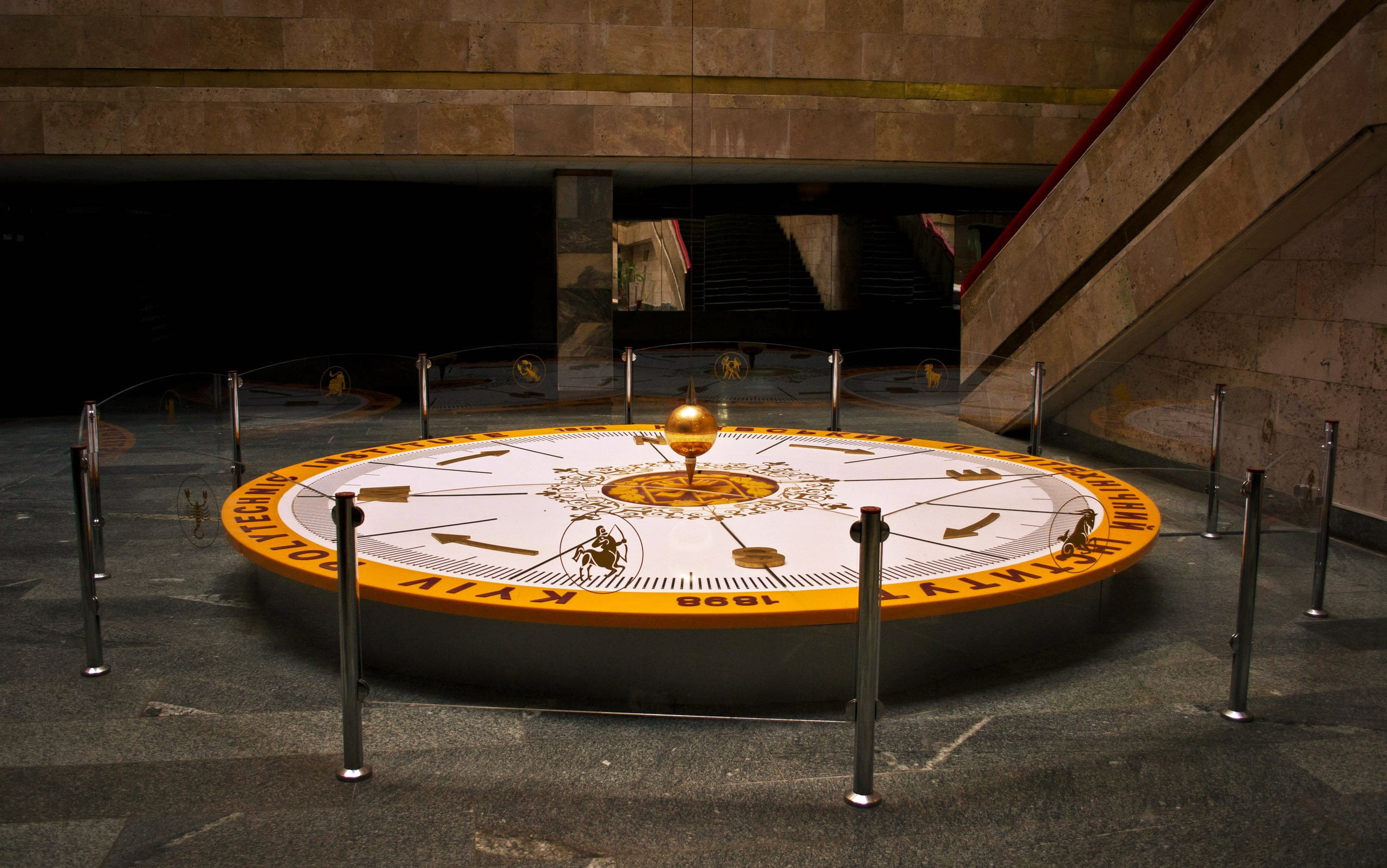 Foucault pendulum in the The Scientific and Technical Library of NTUU "KPI", Kyiv, Ukraine.